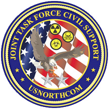 Joint Task Force Civil Support emblem